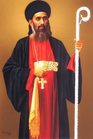 Portrait of Gheevarghese Mar Gregorios of Parumala by Raja Ravi Varma.